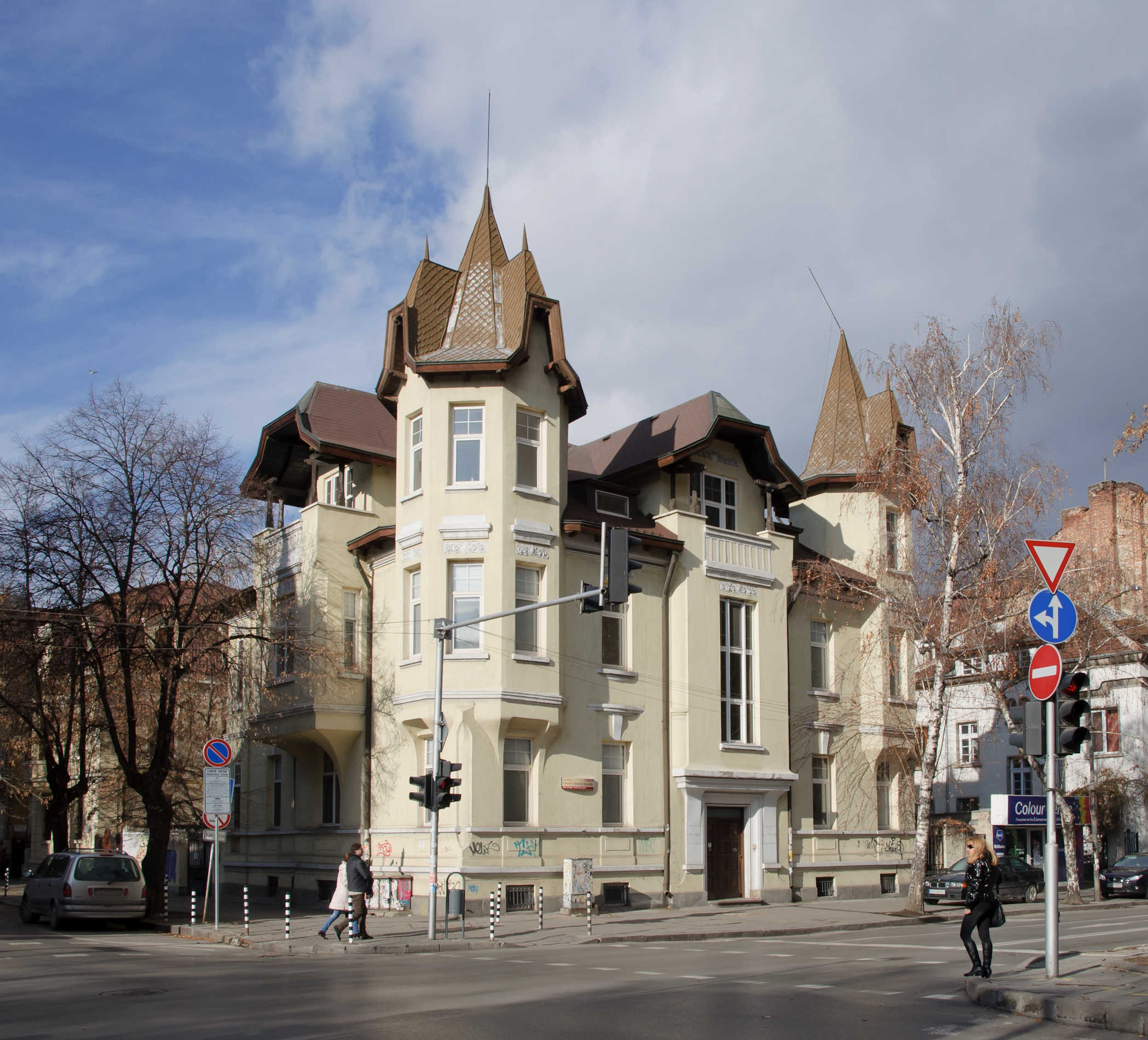 One of the famous twin houses at Evlogi and Hristo Georgievi boulevard in Sofia, Bulgaria.